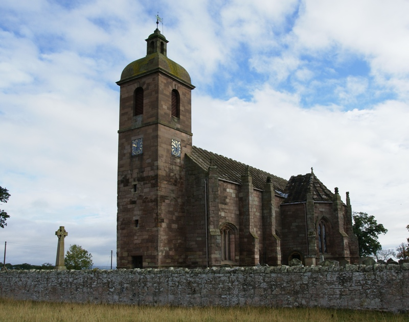 Ladykirk Church, Scottish Borders, Scotland. View from north west.